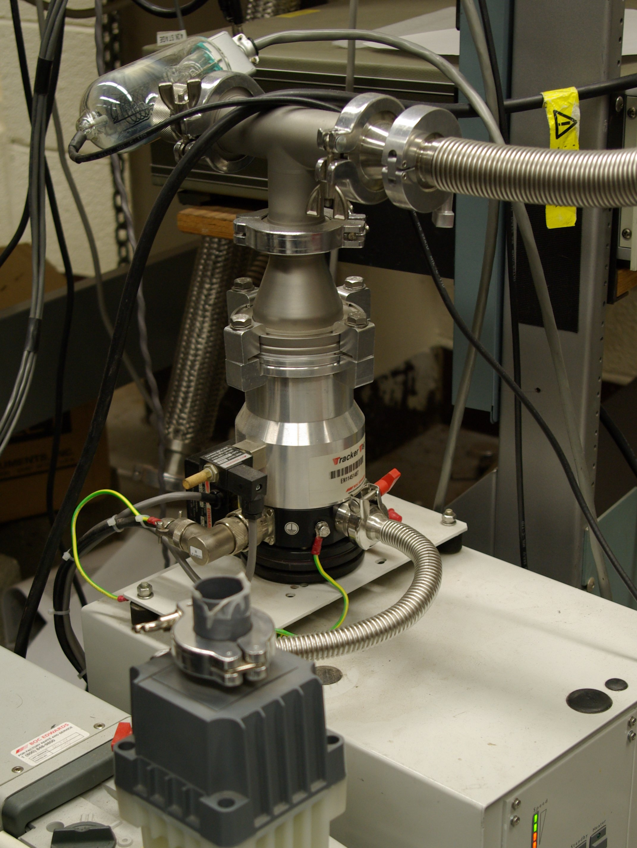 A turbomolecular pump made by BOC Edwards with attached vacuum ionization gauge